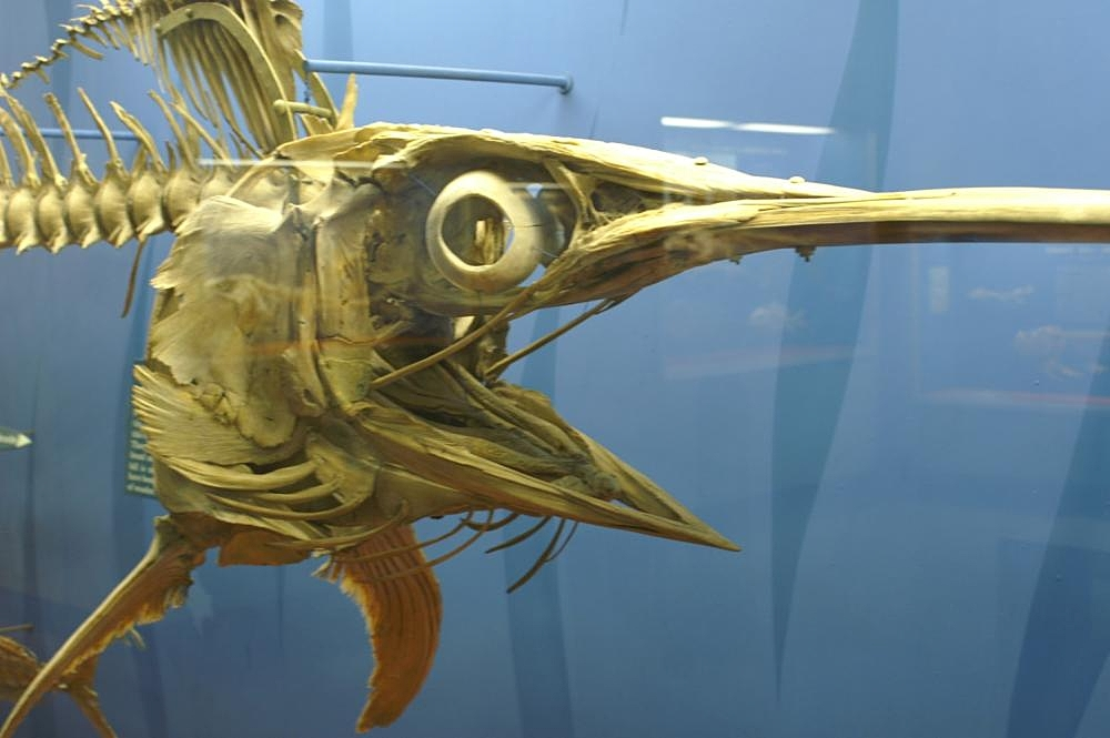 Location taken: Smithsonian National Museum of Natural History. Names: Xiphias gladius Linnaeus, 1758, A´u Ku, A'u ku, Abucef, Aguilh, Aguilhão, Agulh, Agulha, Agulhão, Aja para, Albacora, An Colg, An colgán, Araguagu, Araguaguá, Babljan, Beg sabrenn, Beg-sabrenn, Big-ho, Big-Ho´, Big-ho', Bigo, Bigok, Boucif et touil, Boussif, Broad bill sword fish, Broad-bill sword-fish, Broadbill, Broadbill swordfish, Cá kiếm, Cá Mũi kiếm, Catana, Chichi spada, Colgán, Daanbeeri, Dag haherev, Dakuda, Dogso, Dugho, Dugso, Durkla, Durklažuvė, Emperador, Espad, Espad fisho, Espad-fisho, Espada, Espadão, Espadarte, Espadarte maca, Espadarte meca, Espadarte-maca, Espadarte-meca, Espadim azul, Espadim-azul, Espadon, Espadron, Espardarte, Ezpata arrain, Fur, Furão, Ha Shì Tái Wan Sha, Ha'ura, Haku, Hakura, Hatalikofi, Ho C, Ho cá mui kiem, Iglun, Igo, Jaglun, Kadu kpooara, Kardhal, Kheil al bahar, Kili, Kilic, Kılıç balığı, Kunga, Kuthirameen, Lokjan, Lumod, Macokljun, Malasugi, MalasugiMalasugi, Malasugue, Manumbuk, Marlin, Mas-hibaru, Mayas-pas, Me, Meca, Mečarica, M